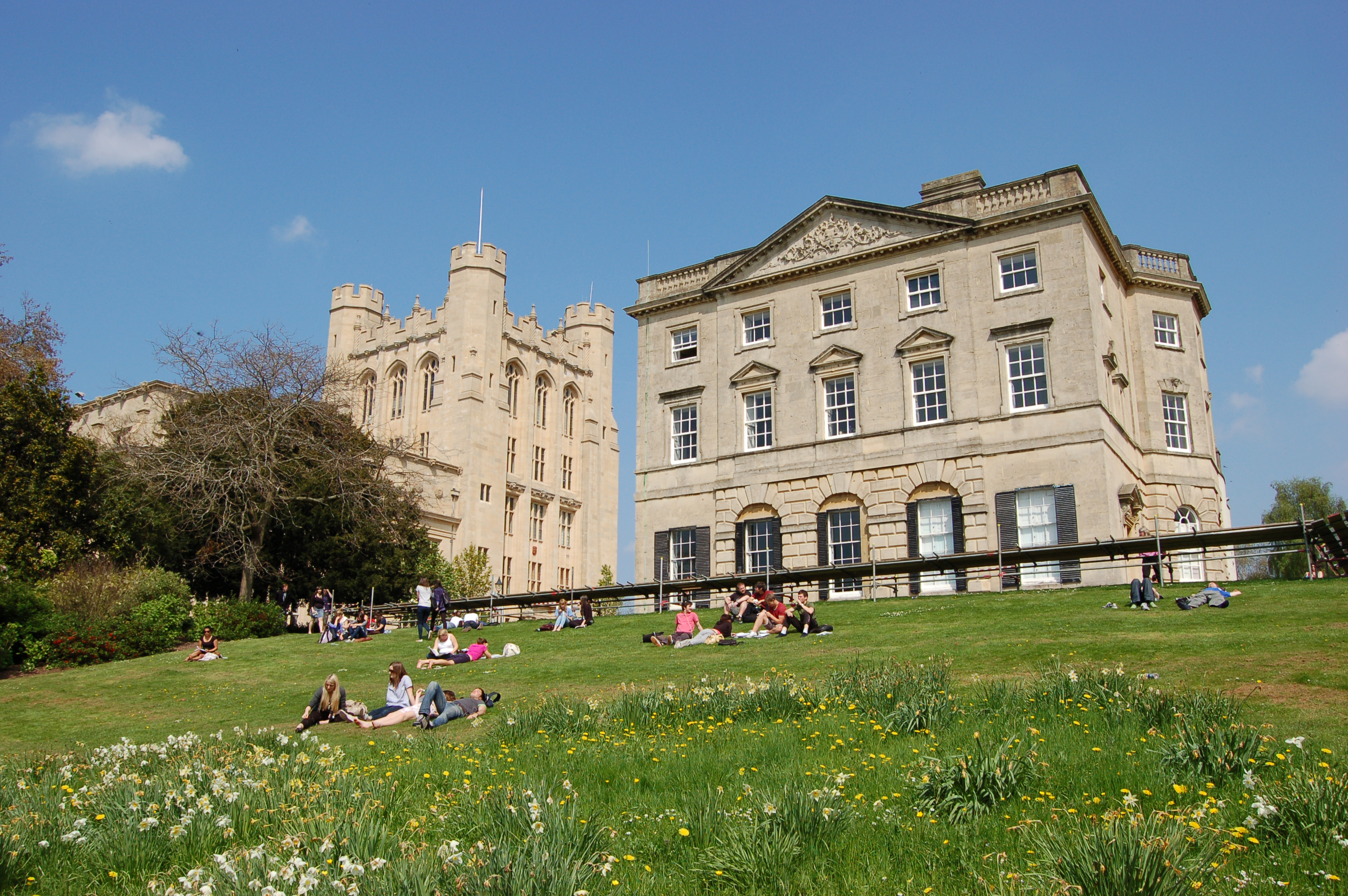 Photograph of Royal Fort House and the H. H. Wills Physics Laboratory at the University of Bristol.